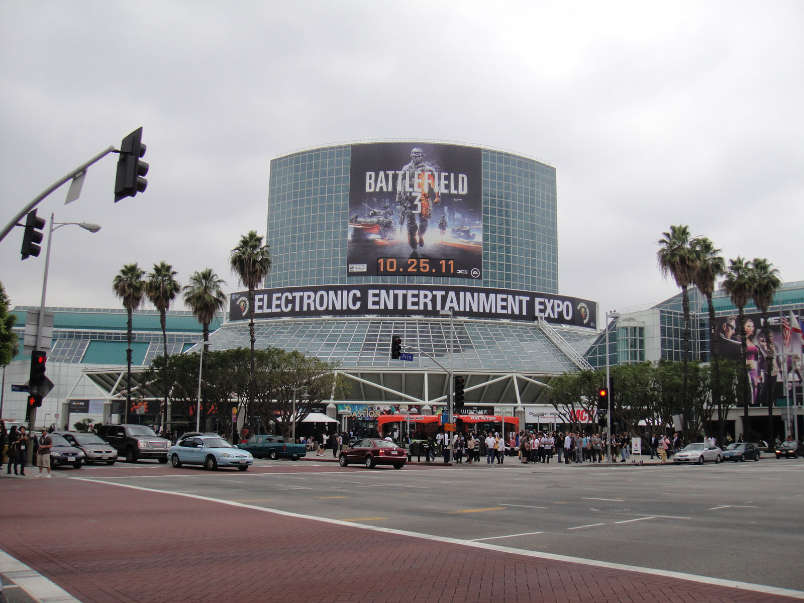 photo 2011 taken by Doug Kline If you're interested in higher resolution versions of my images, contact me via my profile page.